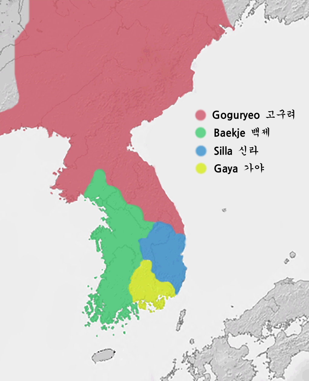 375 years of the Three Kingdoms period was the heyday of Baekje.